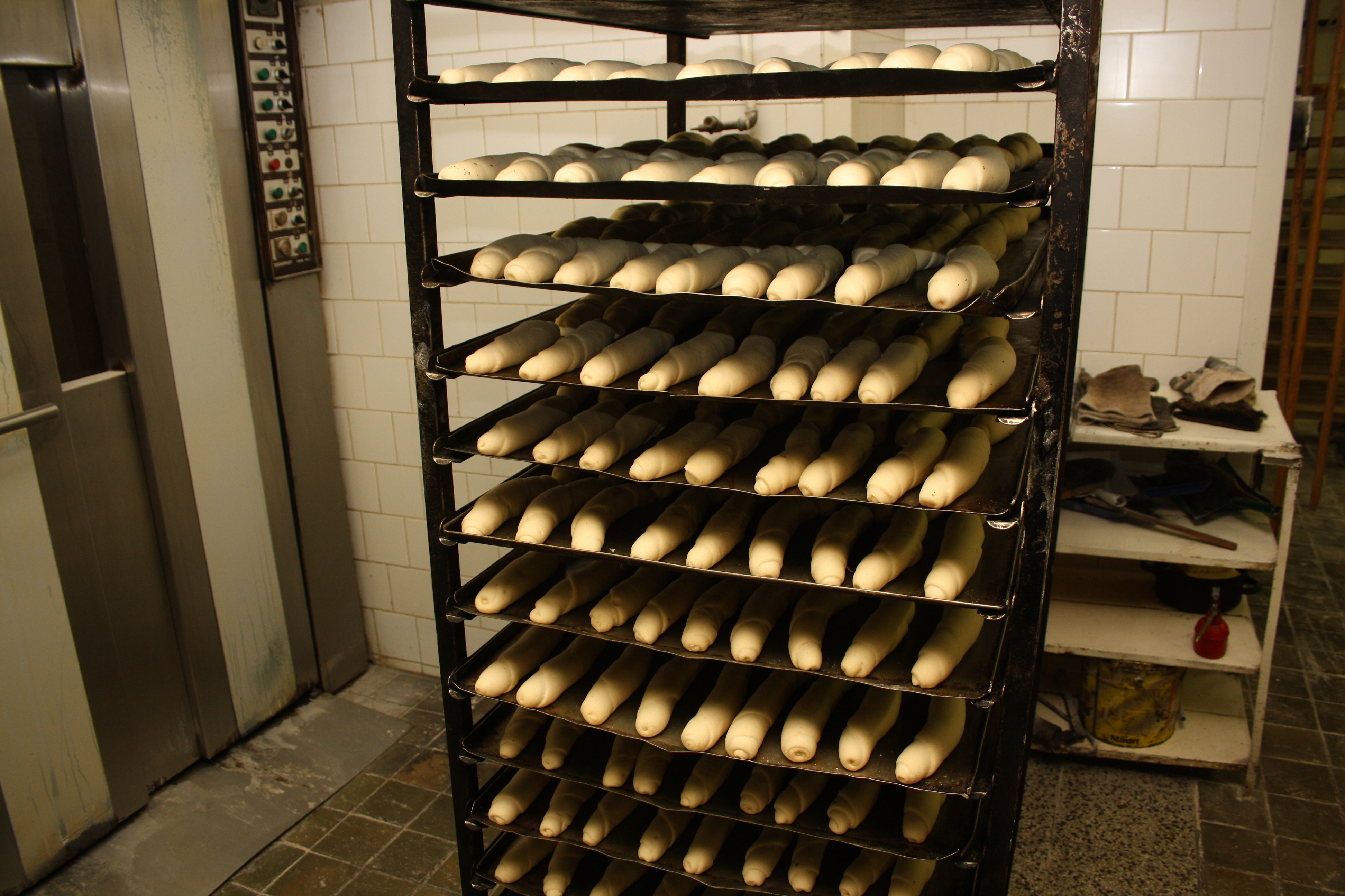 Production process of "rohlík", Czech Republic This photograph was taken with DSLR from WMCZ's Camera grant This picture was taken and/or got within the scope of the 'Acquiring scientific and specialized pictures' grant.